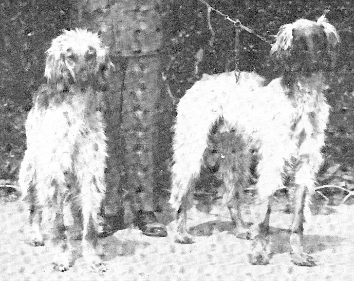 Two Afghan Hounds from 1932.